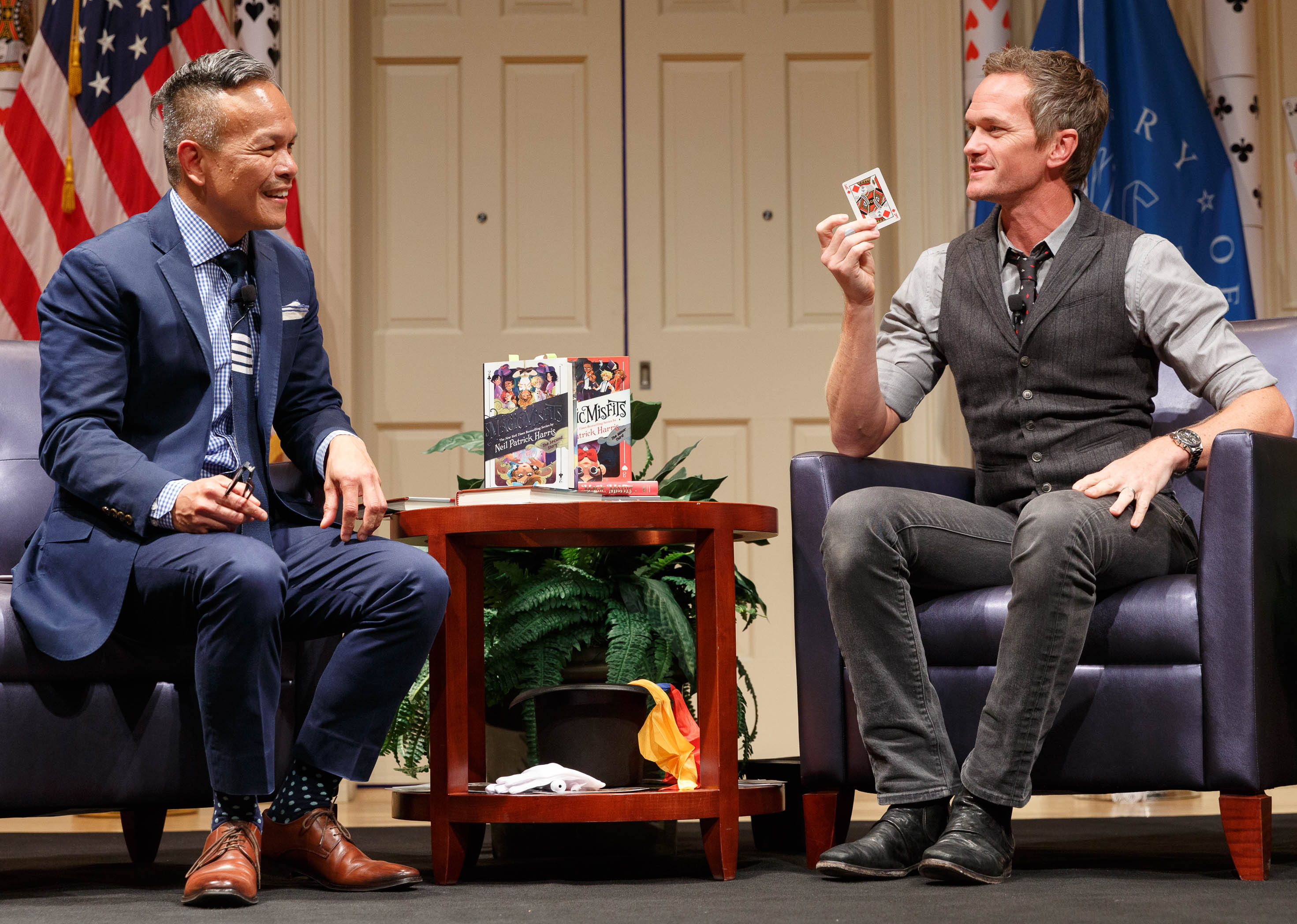 Neil Patrick Harris attempts a card trick with Library Chief Communications Officer Roswell Encina during the "National Book Festival Presents" series opening, September 11, 2019. Photo by Shawn Miller/Library of Congress. Note: Privacy and publicity rights for individuals depicted may apply.